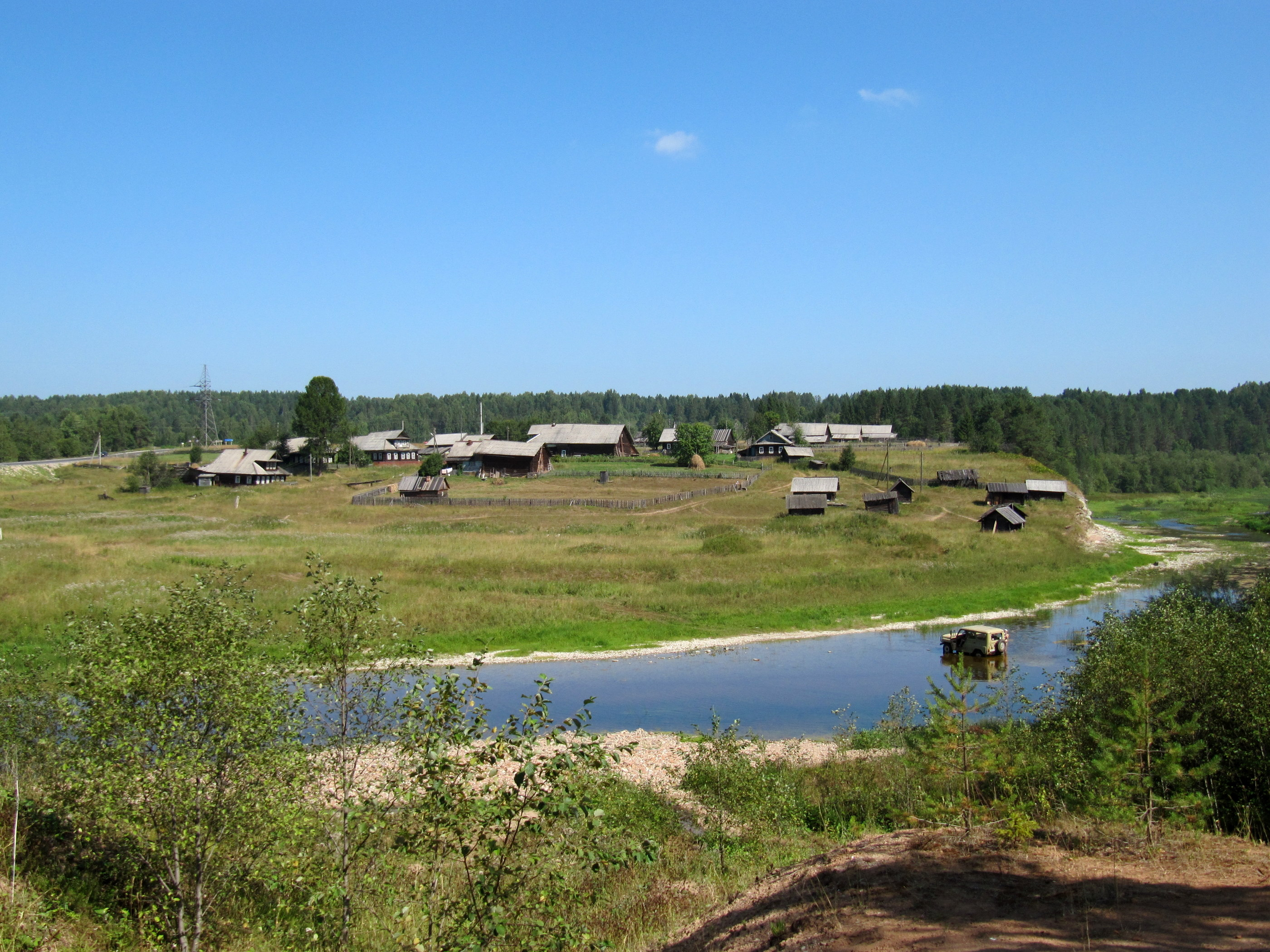 Studyonoe, Velikoustyugsky district